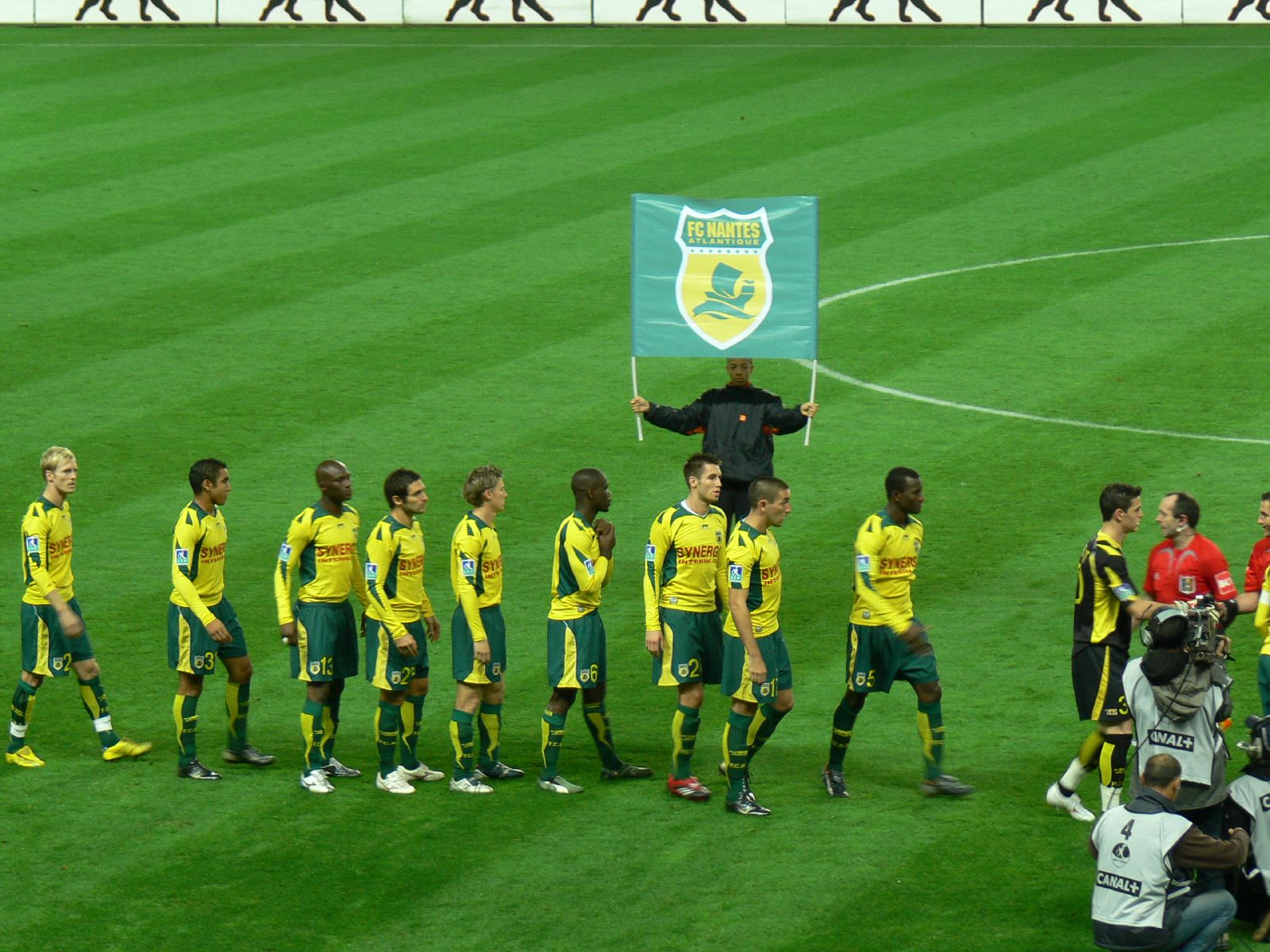 FC Nantes team